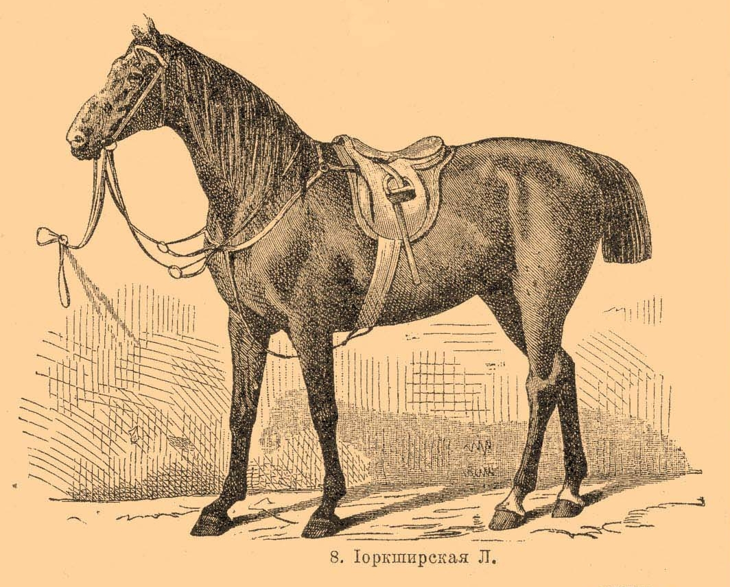 Yorkshire Coach Horse - Illustration from Brockhaus and Efron Encyclopedic Dictionary (1890—1907)